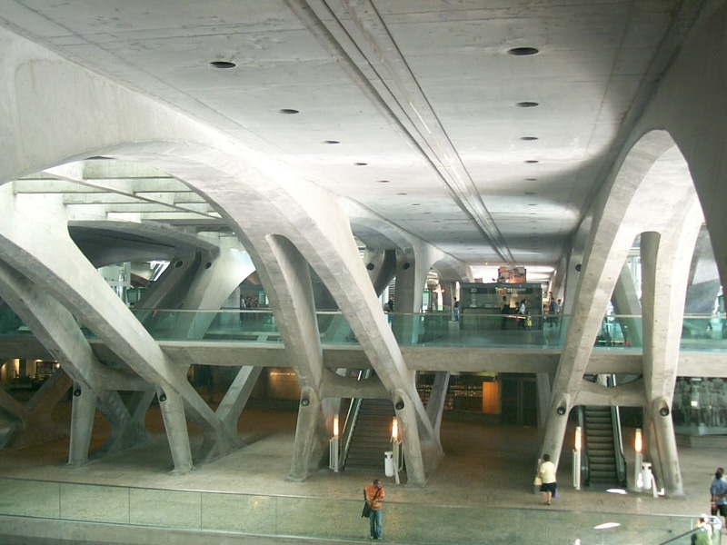 Gare do Oriente train station, Lisbon, Portugal